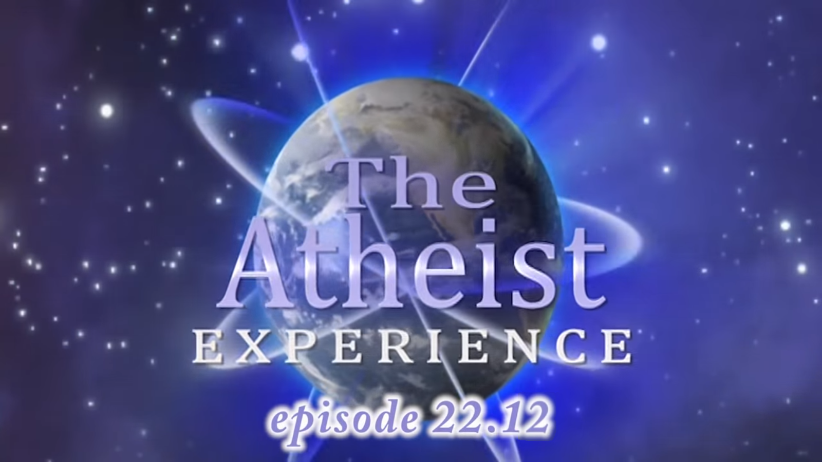 The Atheist Experience logo episode 22.12, featured during the live broadcast at the American Atheists National Convention 2018 in Oklahoma City.